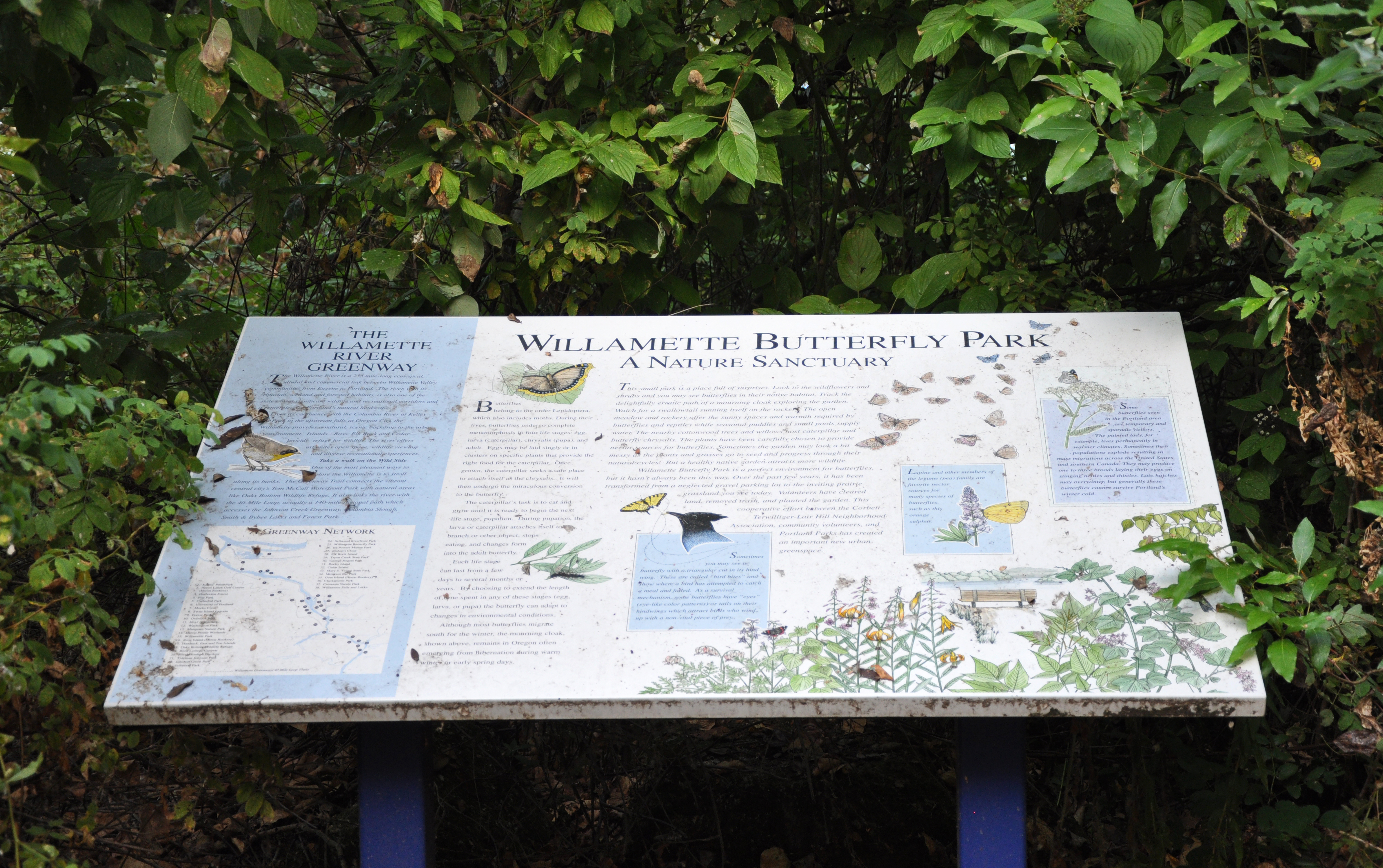 Butterfly Park in southwest Portland, Oregon, in the United States